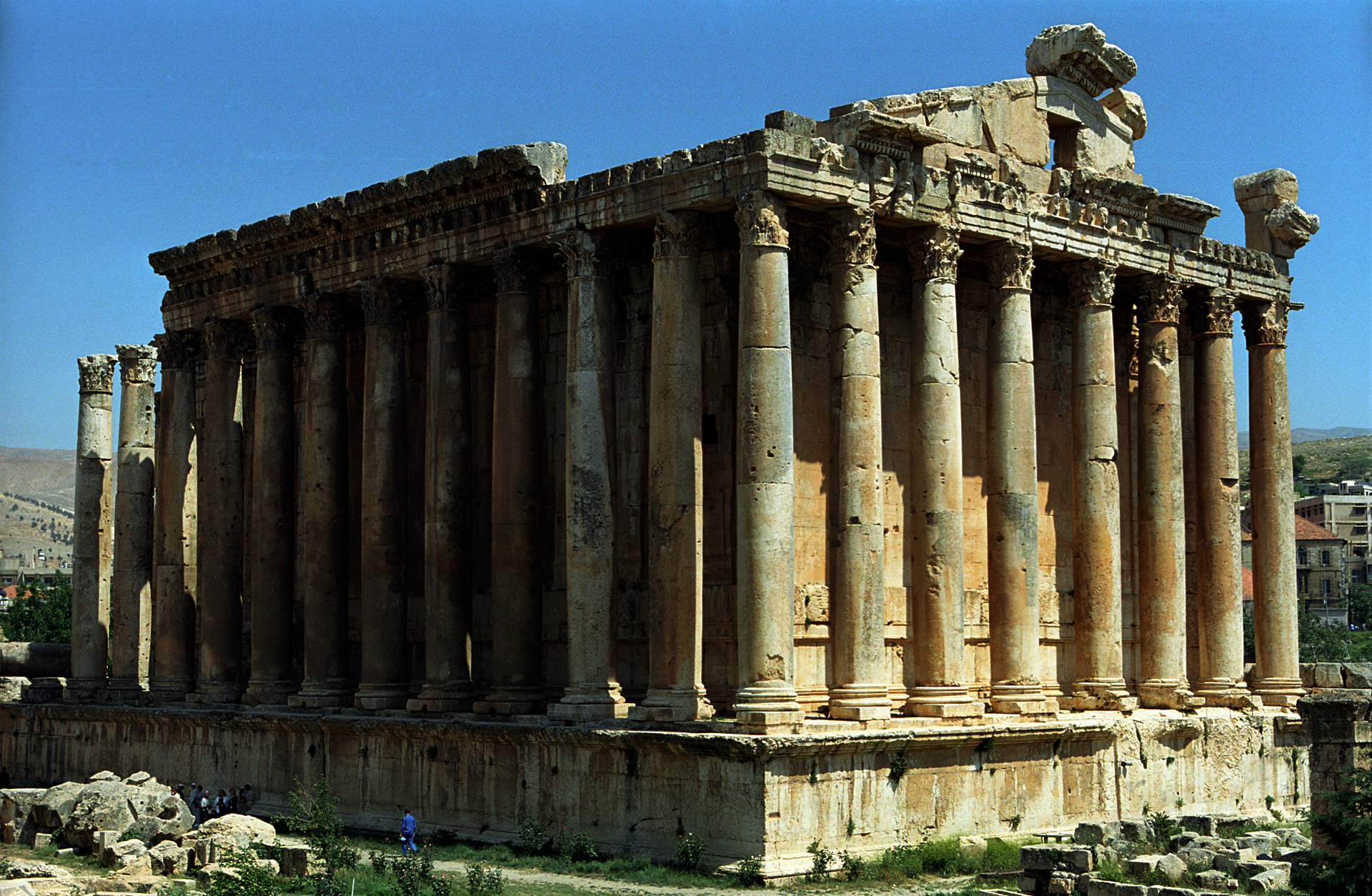 Baalbek, Temple of Bacchus